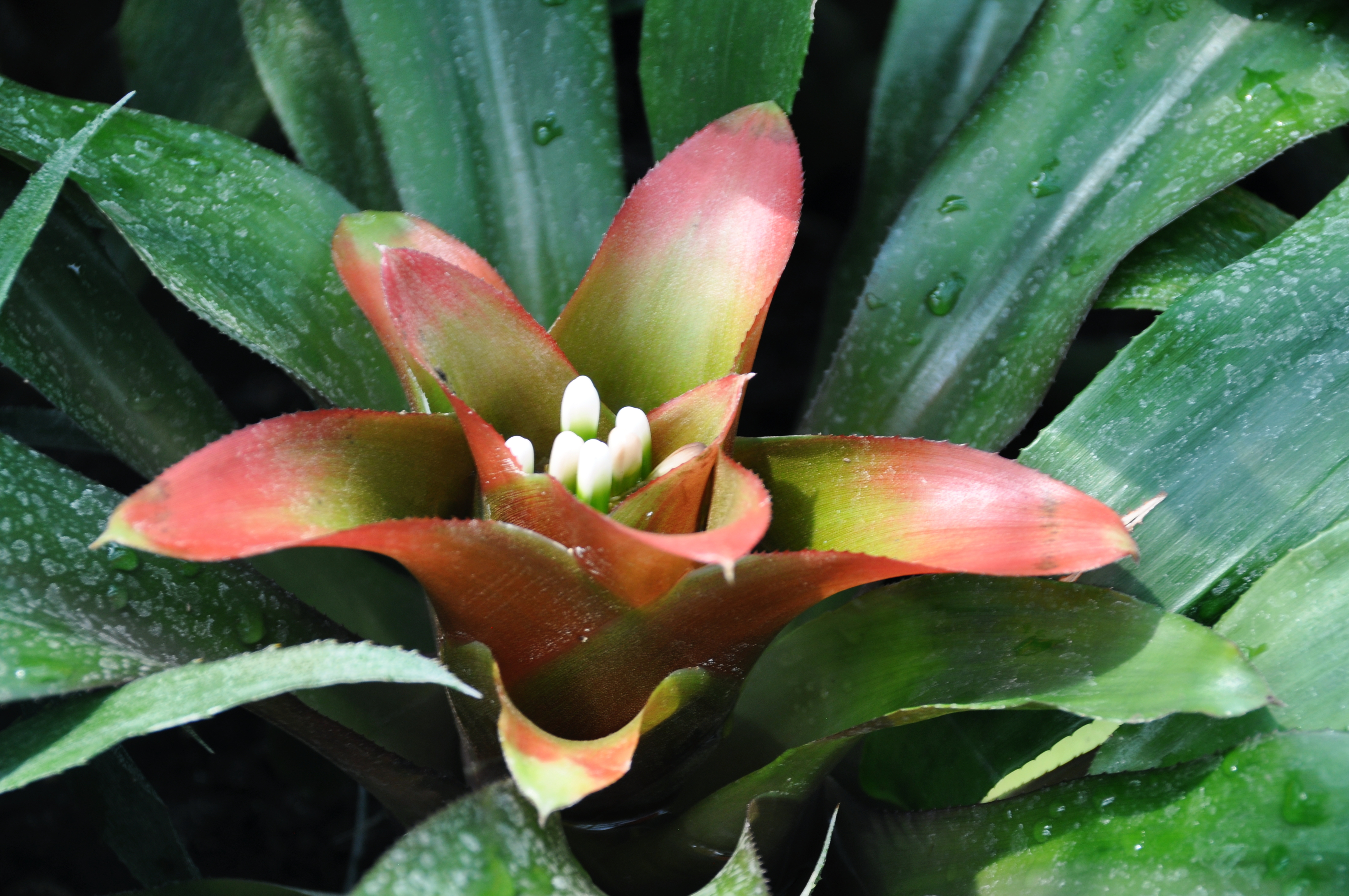 Nidularium innocentii Lem. var. erubescens hort., plant cultivated in Wrocław Unoversity Botanical Garden, Wrocław, Poland.